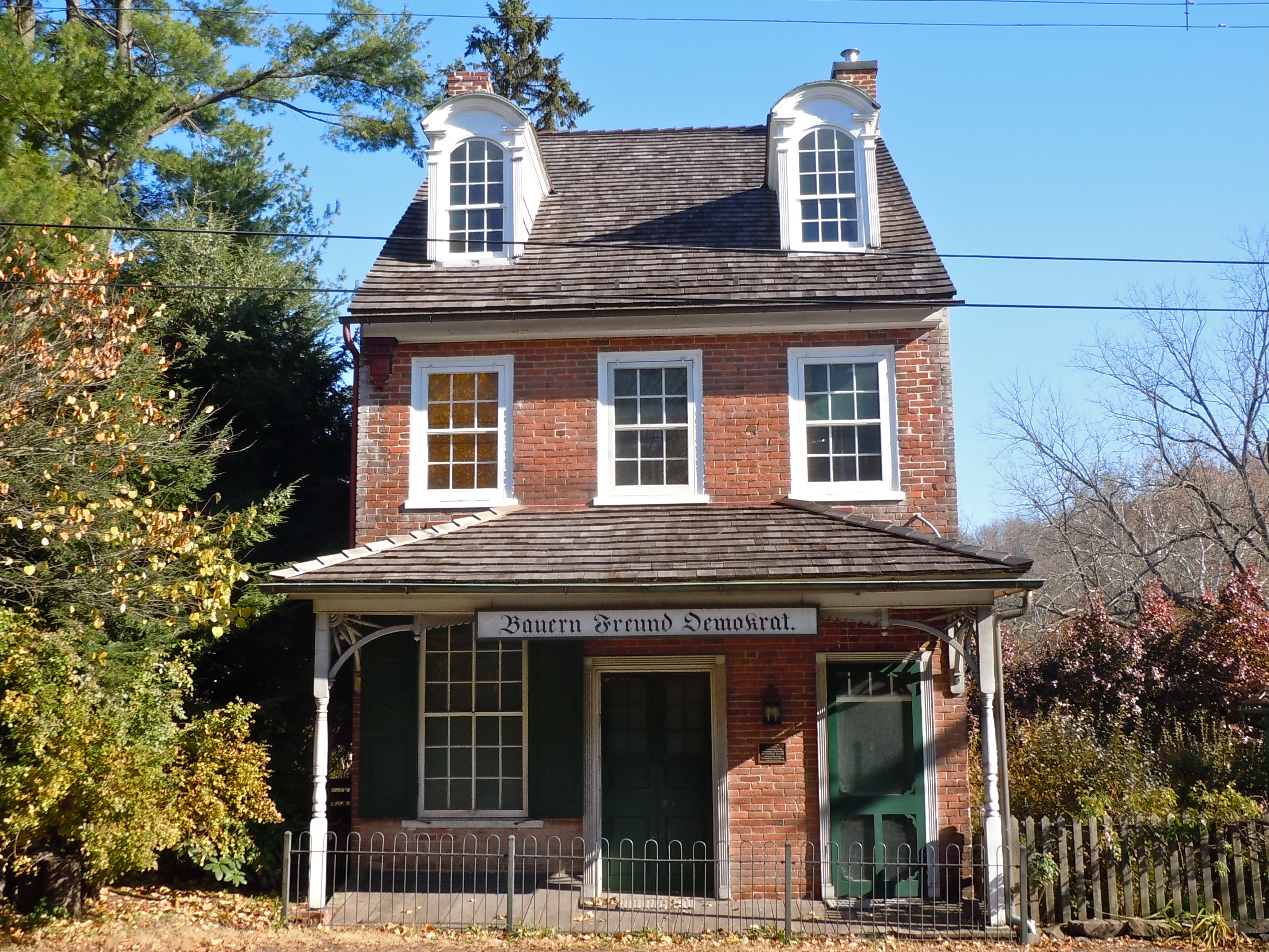 Bauern Freund Print Shop on the NRHP since July 26, 1982. On Pennsylvania Route 63, in Marlborough Township, Montgomery County, Pennsylvania. In unincorporated hamlet of Sumneytown. German language press - Bauren Freund Demokrat written on front. Area originally settled by "Pennsylvania Dutch."